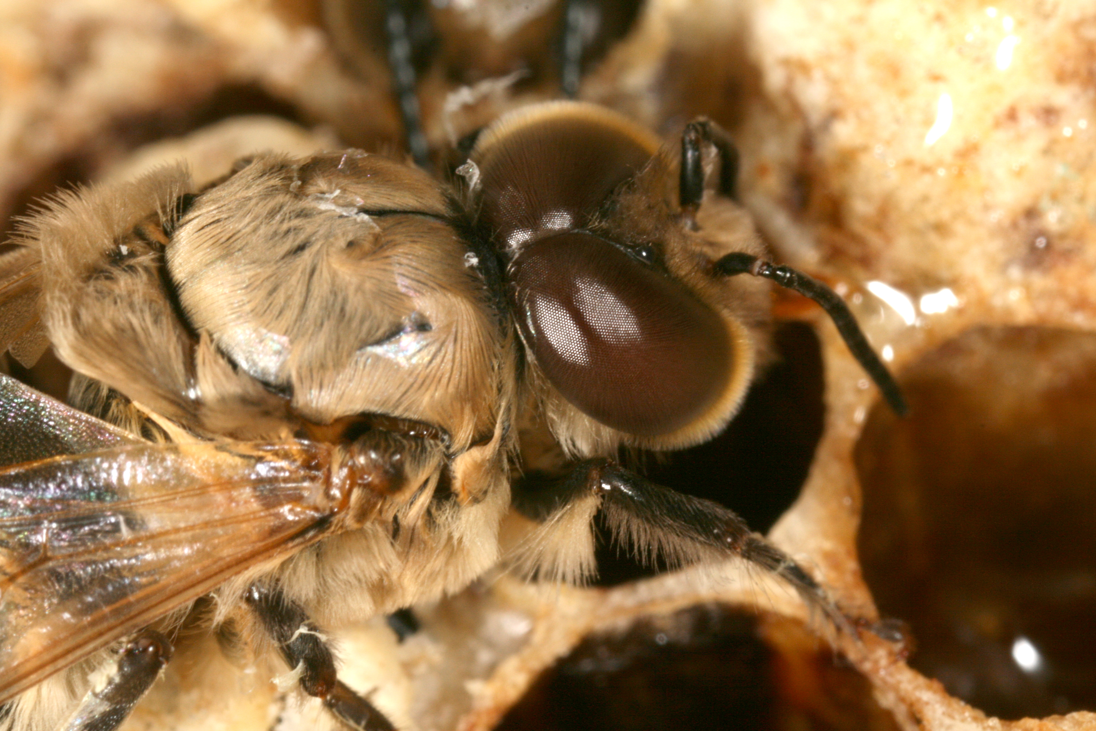 Description: The Carniolan honey bee (Apis mellifera carnica) is a subspecies of Western honey bee. It originates from Slovenia, but can now be found also in Austria, part of Hungary, Romania, Croatia, Bosnia and Herzegovina, and Serbia.